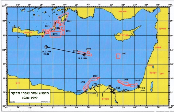 Searches in the Meditterranen for the lost submarine INS Dakar